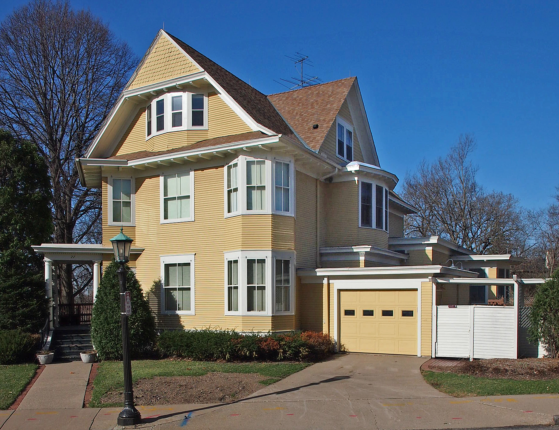 Burnquist House, 27 Crocus Pl, St Paul, Minnesota, USA, shortly before its demolition in 2015. Viewed from the north. A contributing property to the Historic Hill District.